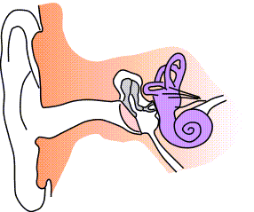 Ear anatomy no text I made this myself - Iain 05:45 29 Jun 2003 (UTC)